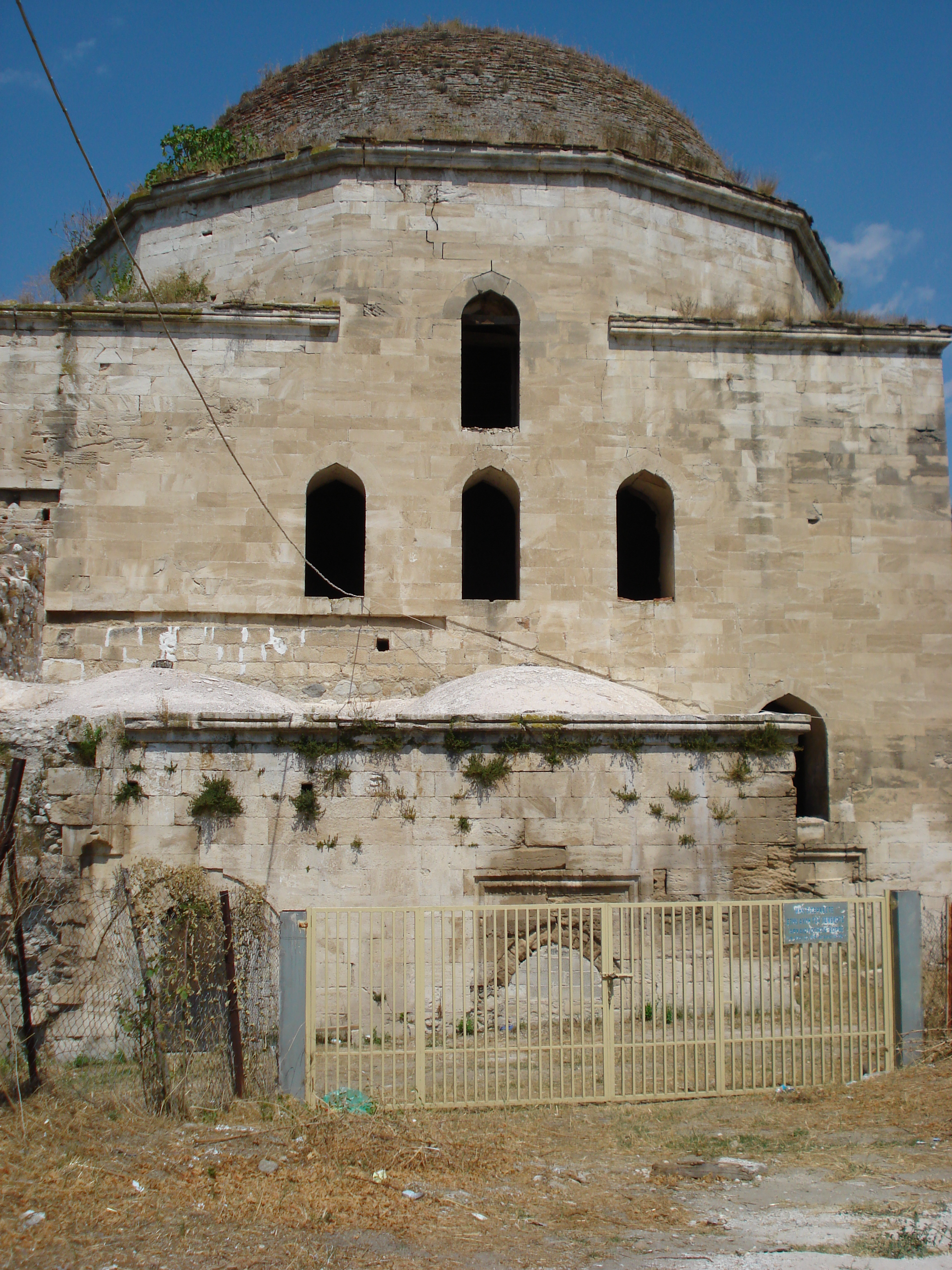 A mosque in Serres, Greece, known as the Mehmet Pasha Mosque (Τζαμί Μεχμέτ Πασά).